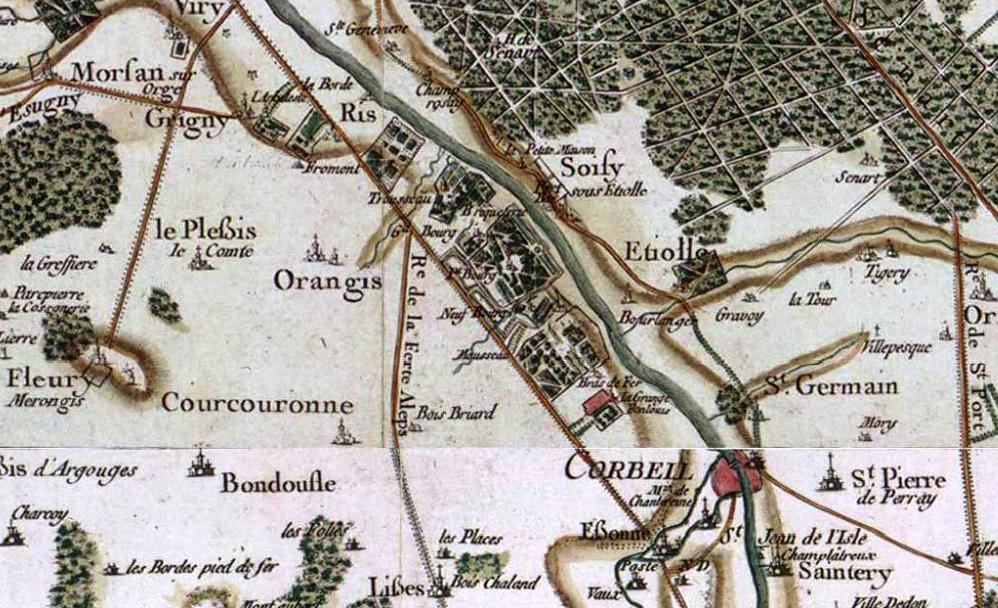 Evry map in XVIIIe century